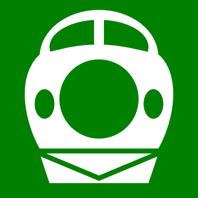 Shinkansen mark